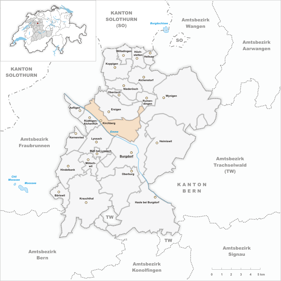 Municipality Kirchberg